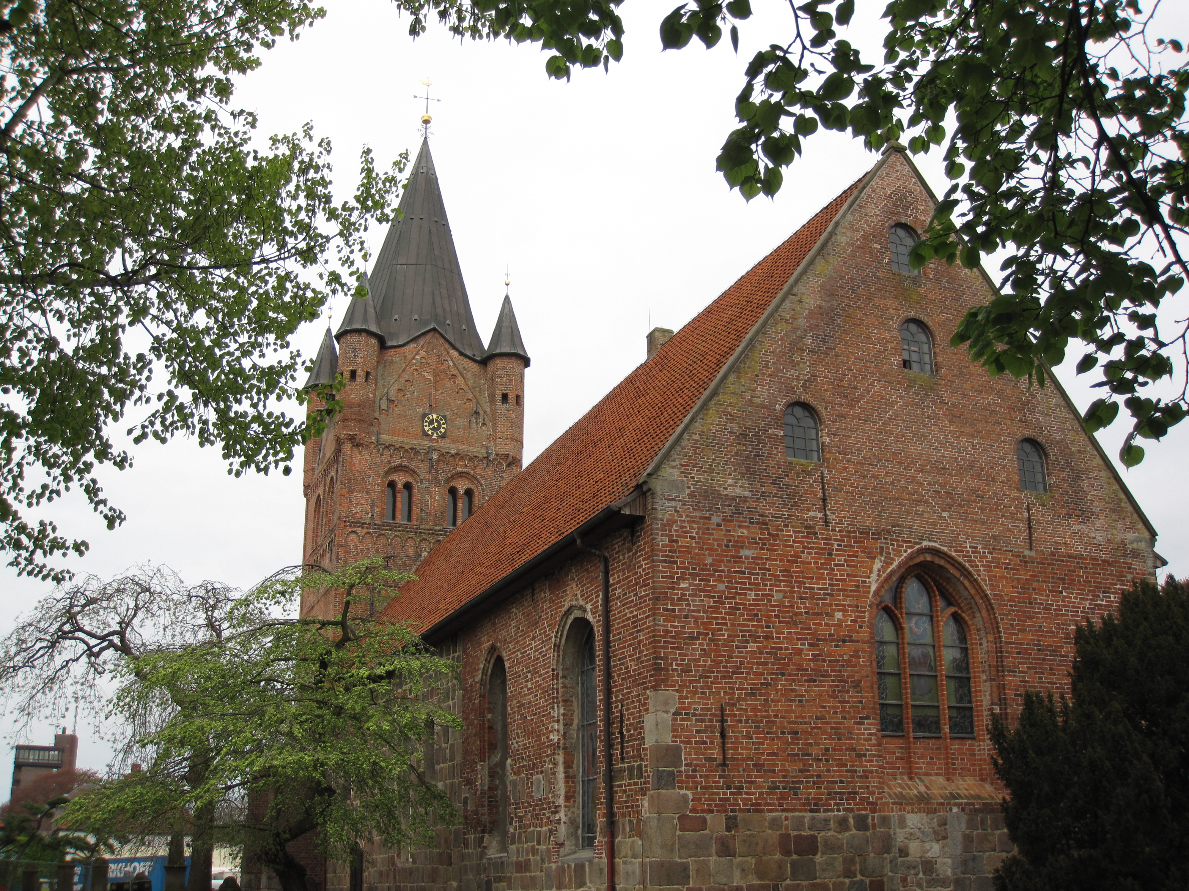 Westerstede's St Petri Church, Westerstede Germany